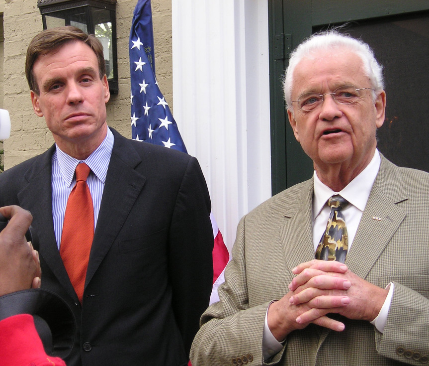 Governor Mark Warner and Iowa Congressman Leonard Boswell